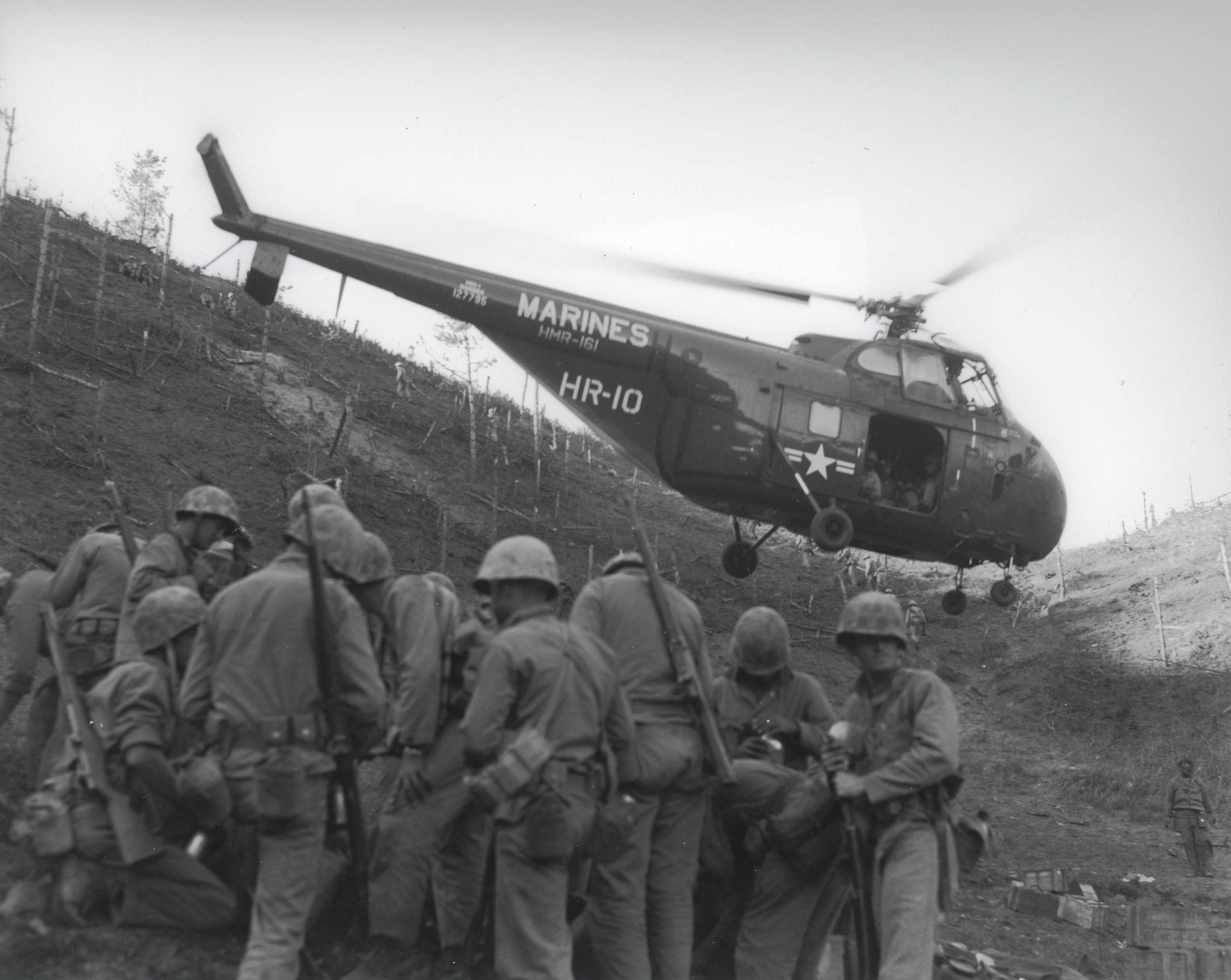 "Return flight-An GRS-1 Sikorsky transport helicopter lifts away with a load of casualties after disembarking the Marines in foreground." From the Photograph Collection (COLL/3948), Marine Corps Archives & Special Collections OFFICIAL USMC PHOTO